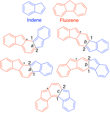 The five possible regioisomers of indenofluorenes.